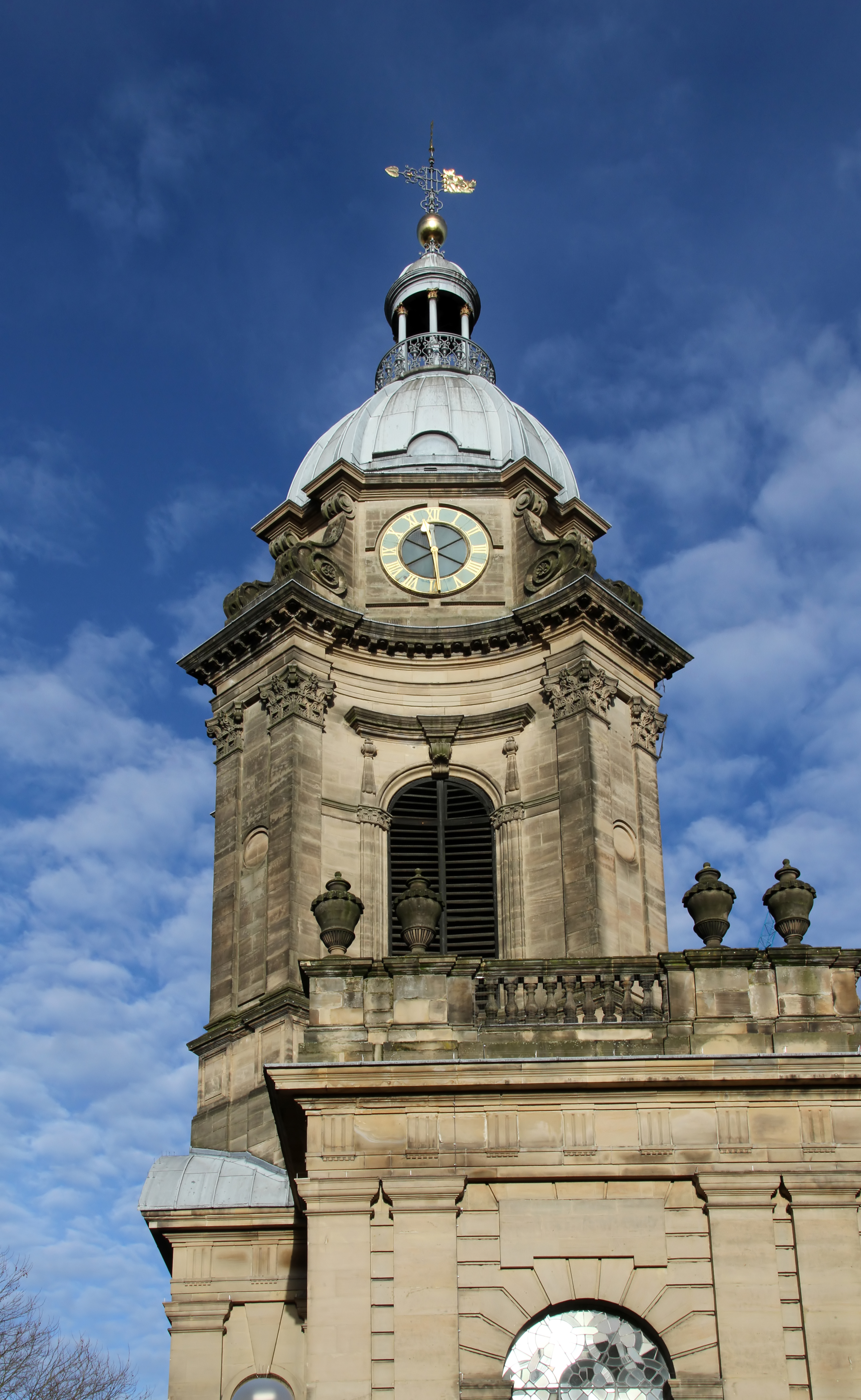 Birmingham St Philip's Cathedral